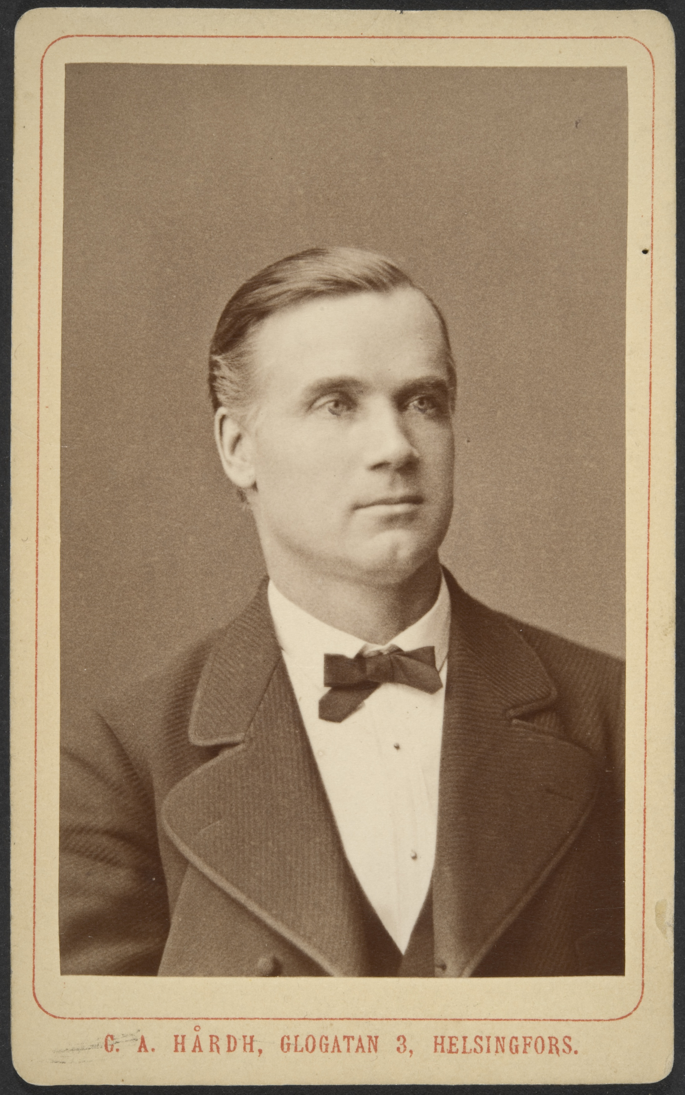 Photograph of the Finnish shipowner Lars Th. Krogius (1832–1890).